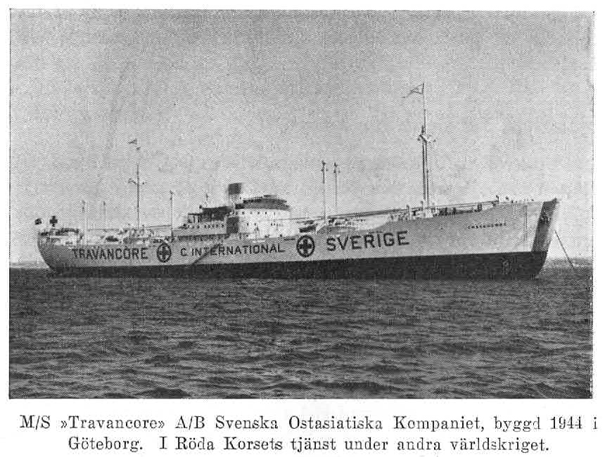 Swedish ship in relief service to Greece during Second world war